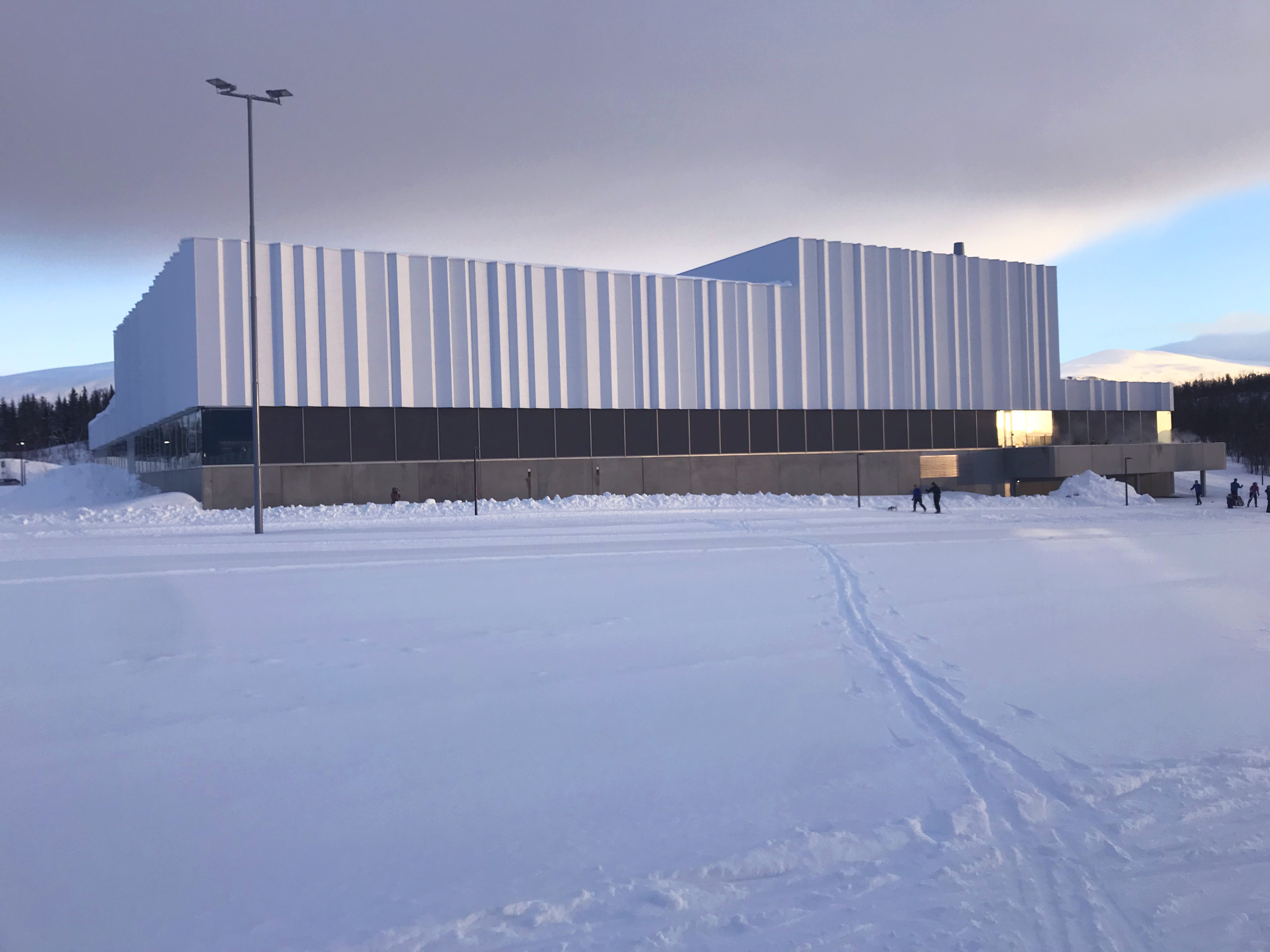 Tromsøbadet. Public Bath owned by Tromsø municipality.